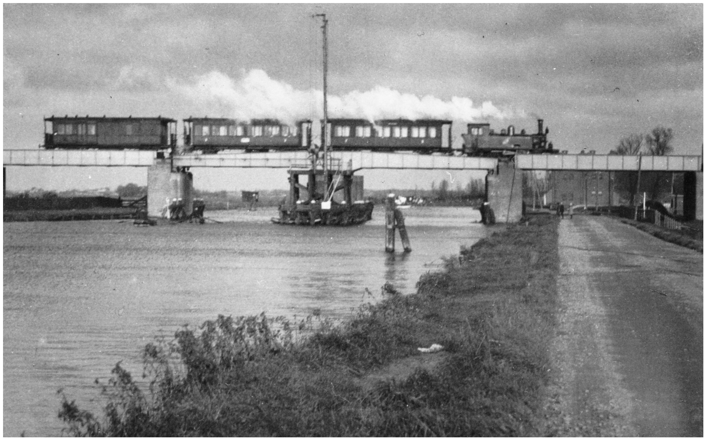 Bridge of the Haarlemmermeer Railway over the river Zijl, at the location of the current Willem de Zwijgerlaan (in Leiden, Netherlands), seen from the Zijldijk looking north. On the bridge passes a steam locomotive (of the 7000 series) to Hoofddorp. The Haarlemmermeer Railway existed from 1912 to 1935.